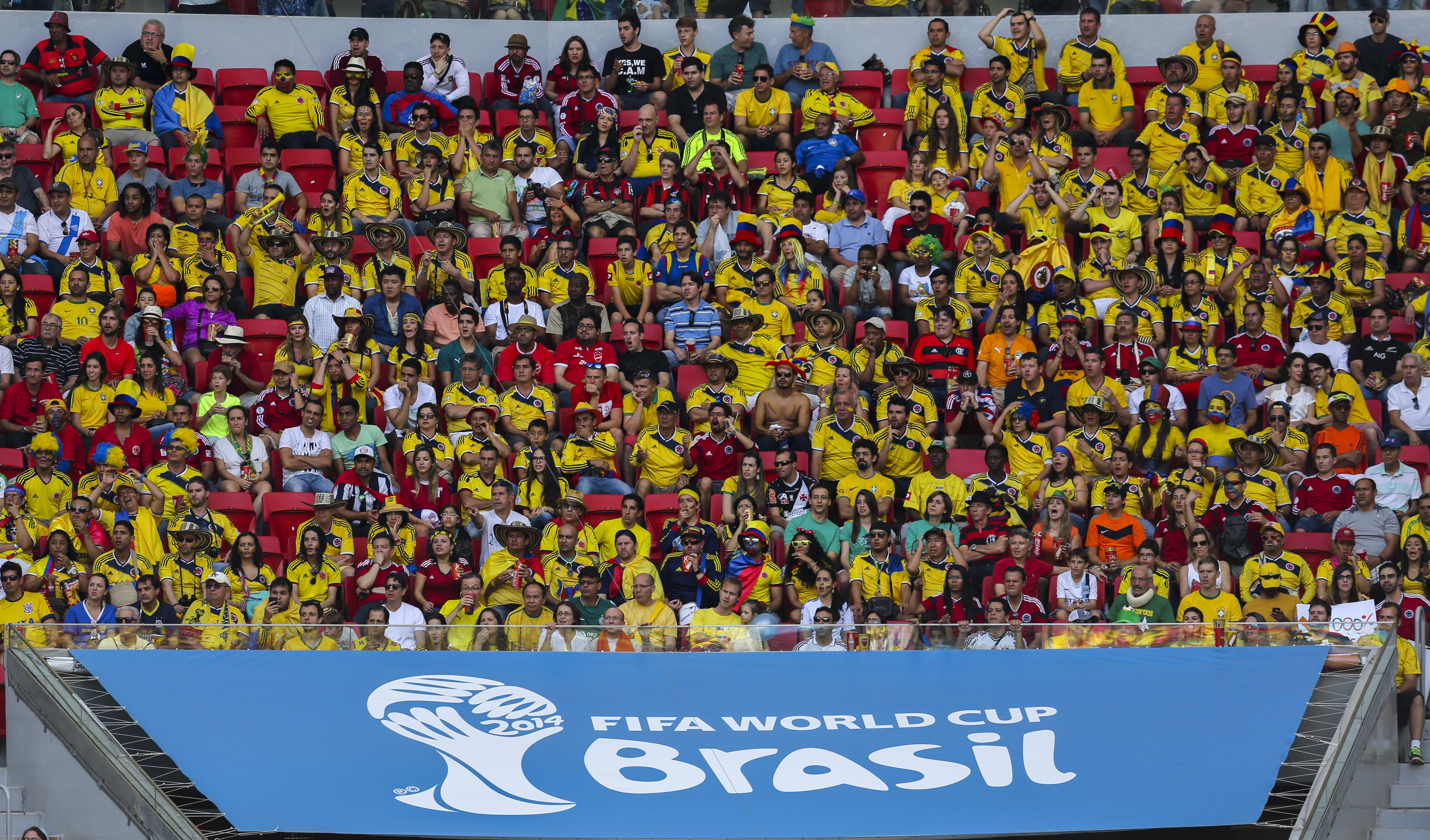 Colombia and Ivory Coast match at the FIFA World Cup 2014-06-19